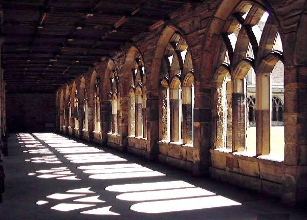 Cloisters, Durham Cathedral, UK. Photograph by Robin Widdison